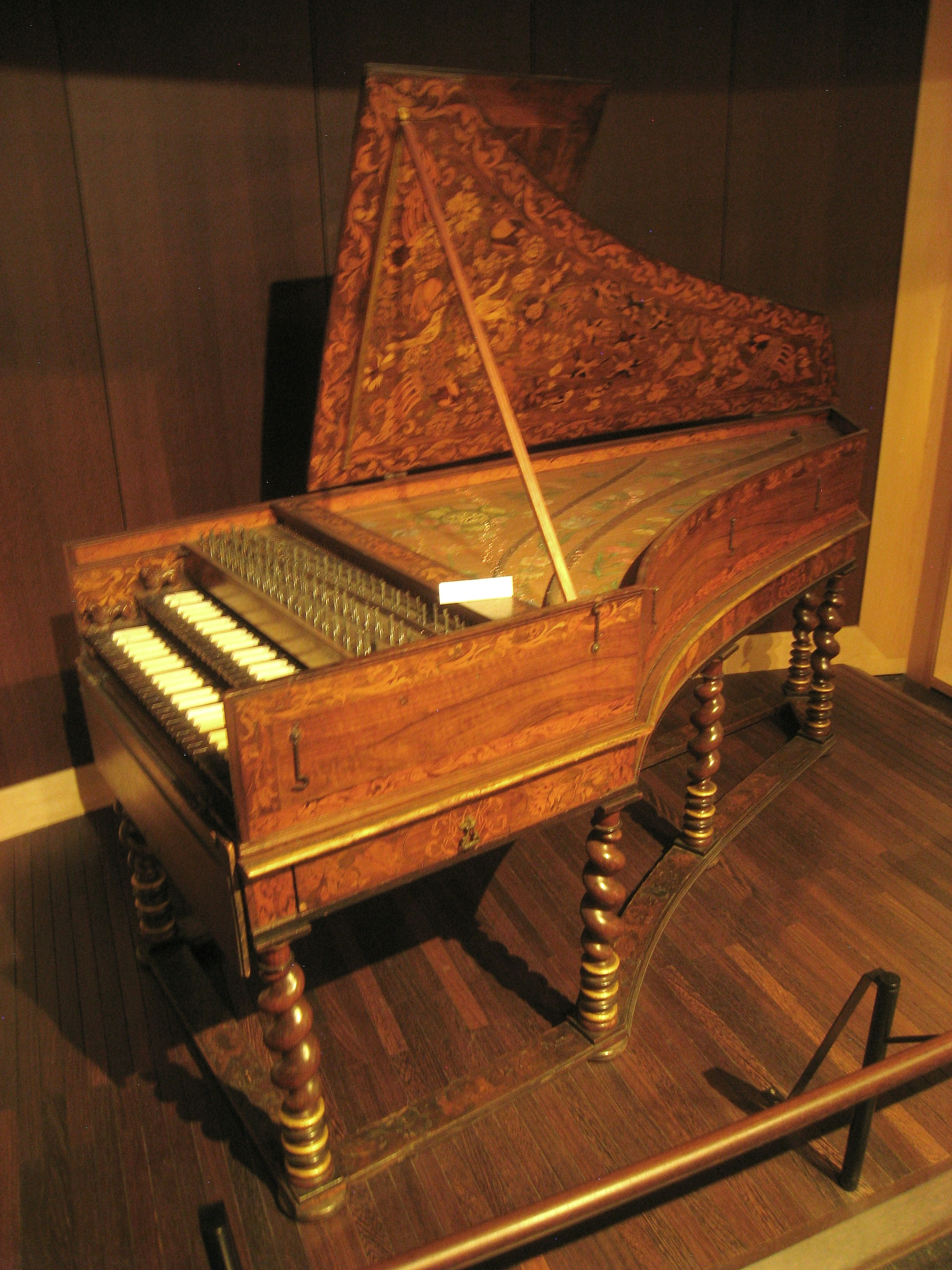 Keyboard instrument in the Musical Instrument Museum, Brussels, Belgium. Vincent Tibaut, Toulouse, 1679 - clavecin.